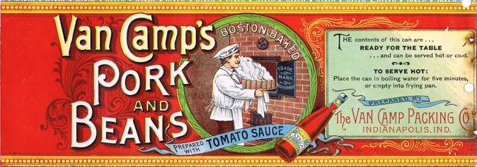 This is a label from a can of Van Camp's Boston Baked Pork & Beans from around 1900